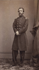 An image of Thaddeus P. Mott, an army commander.